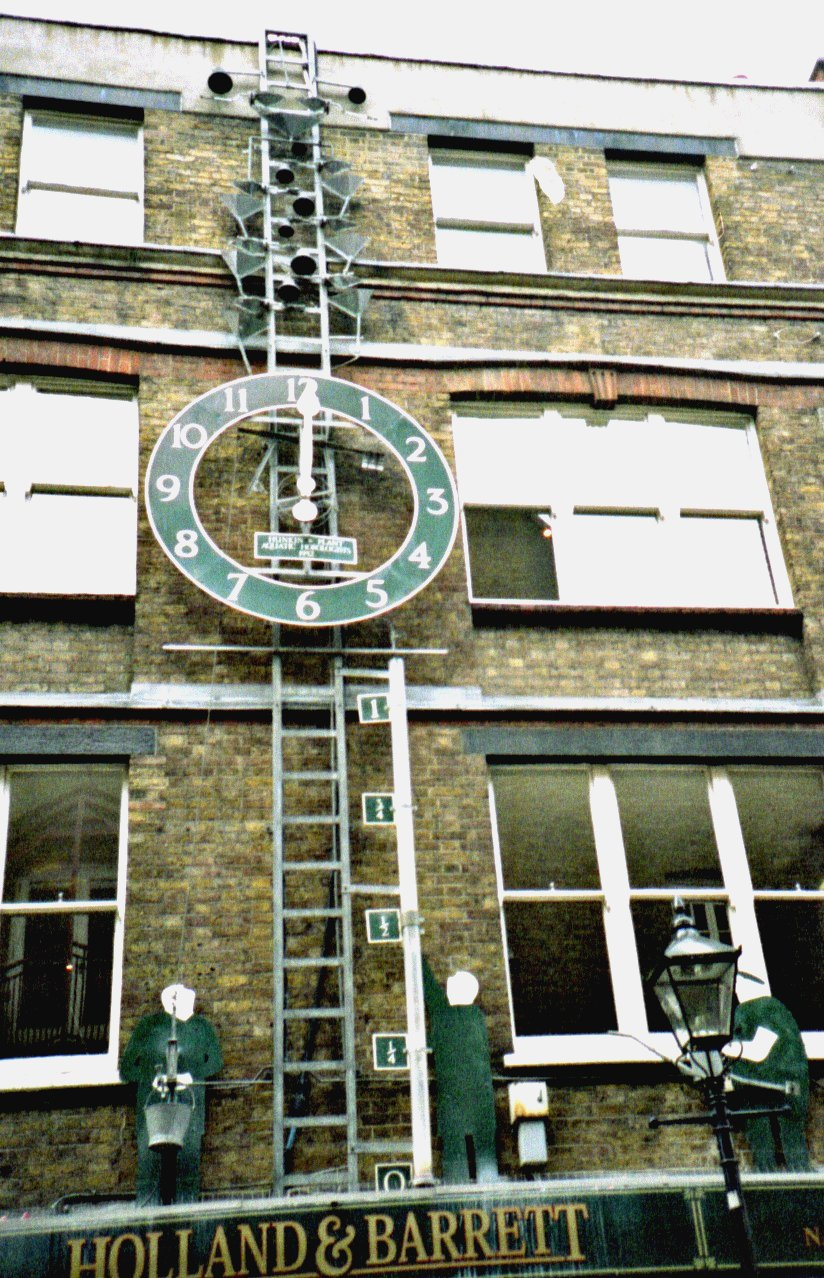 This clock is in Shorts Gardens, Covent Garden, London WC2. It used to work by filling the buckets at the top with water. I was saddened to see that it's now broken. Some information here